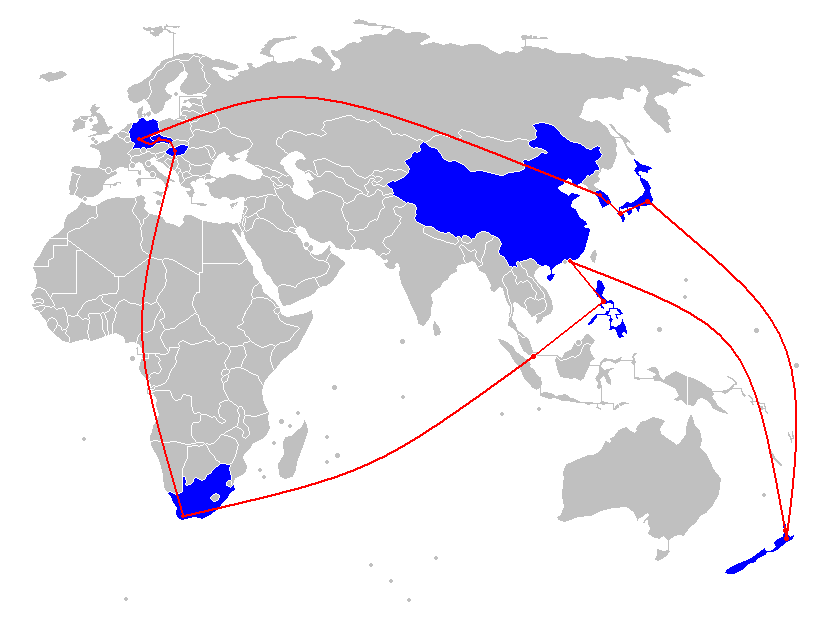 The route map of The Amazing Race Asia 2